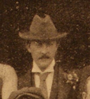 Photo of Jim Balharry in 1898